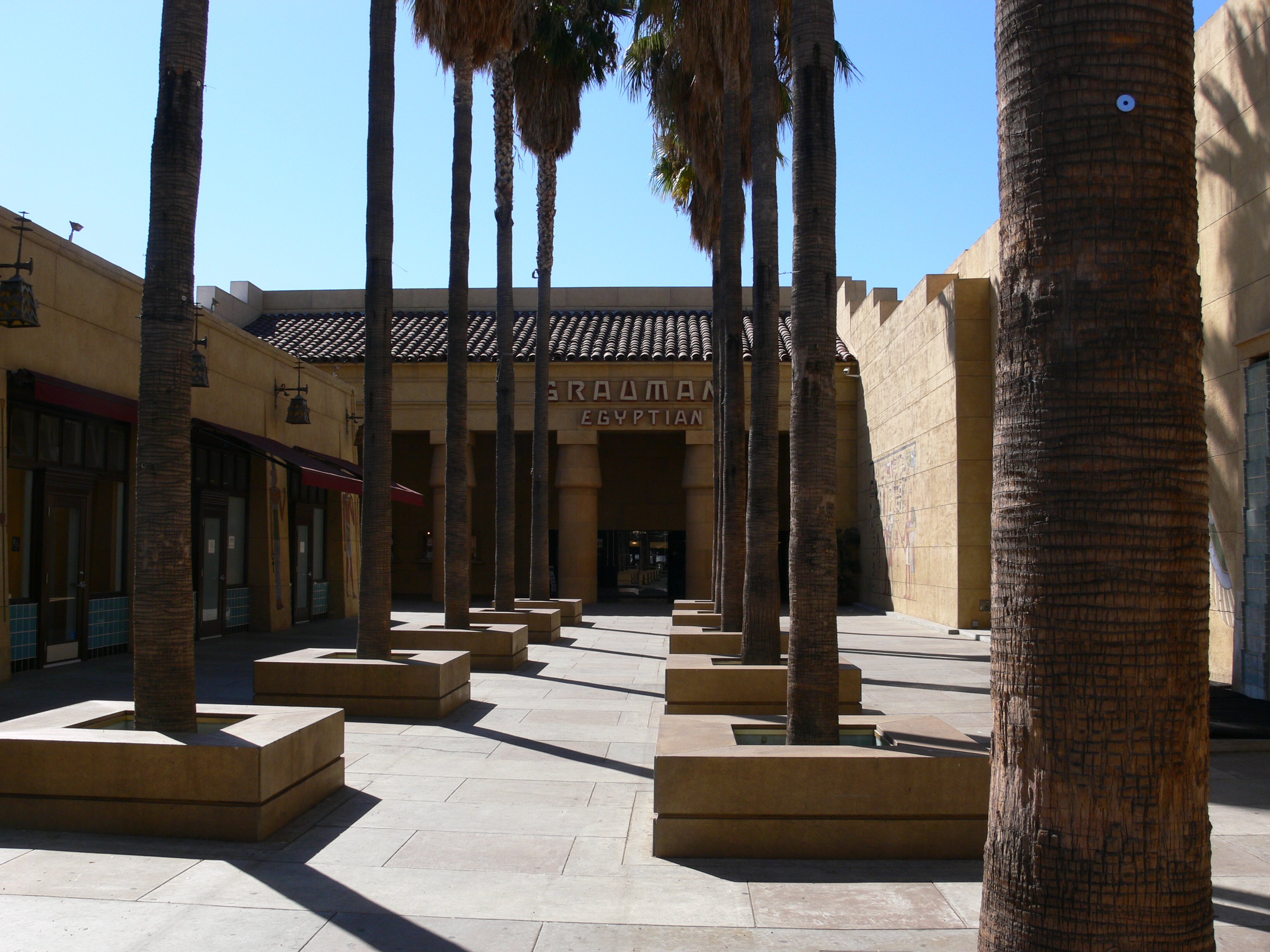 View from Hollywood Boulevard, through entry courtyard with palm allée, to Grauman's Egyptian Theatre entrance. In central Hollywood, Los Angeles, California.